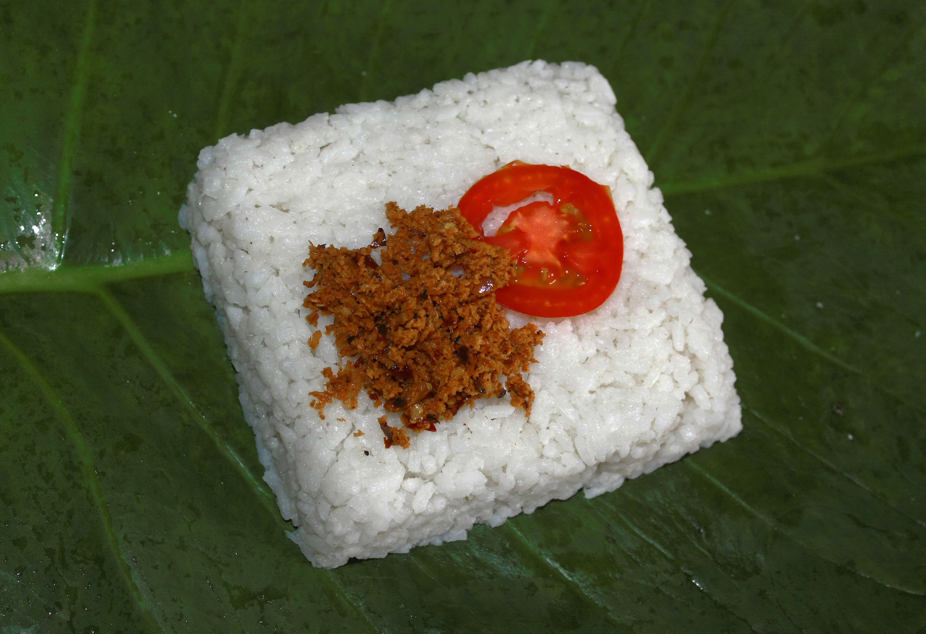 Kiribath (milk rice) with lunumiris (Sri Lankan spicy sambal paste)